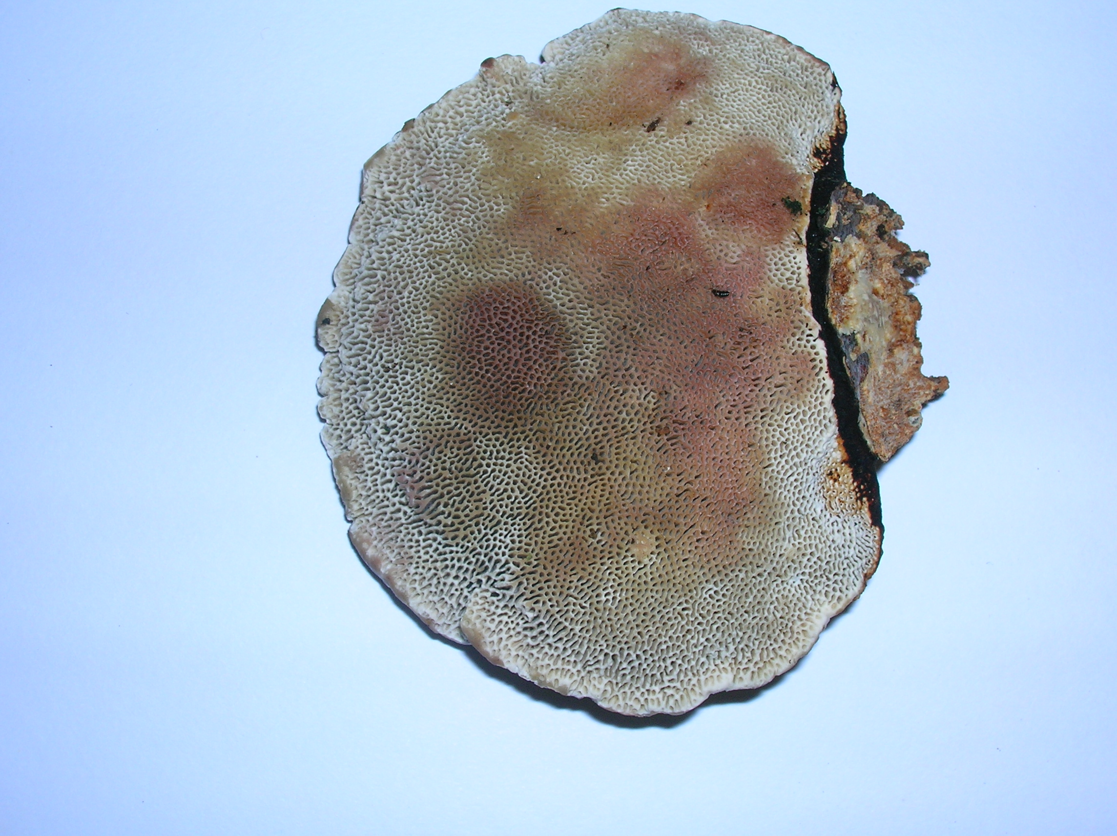 Daedaleopsis_confragrosa - the Blushing Bracket